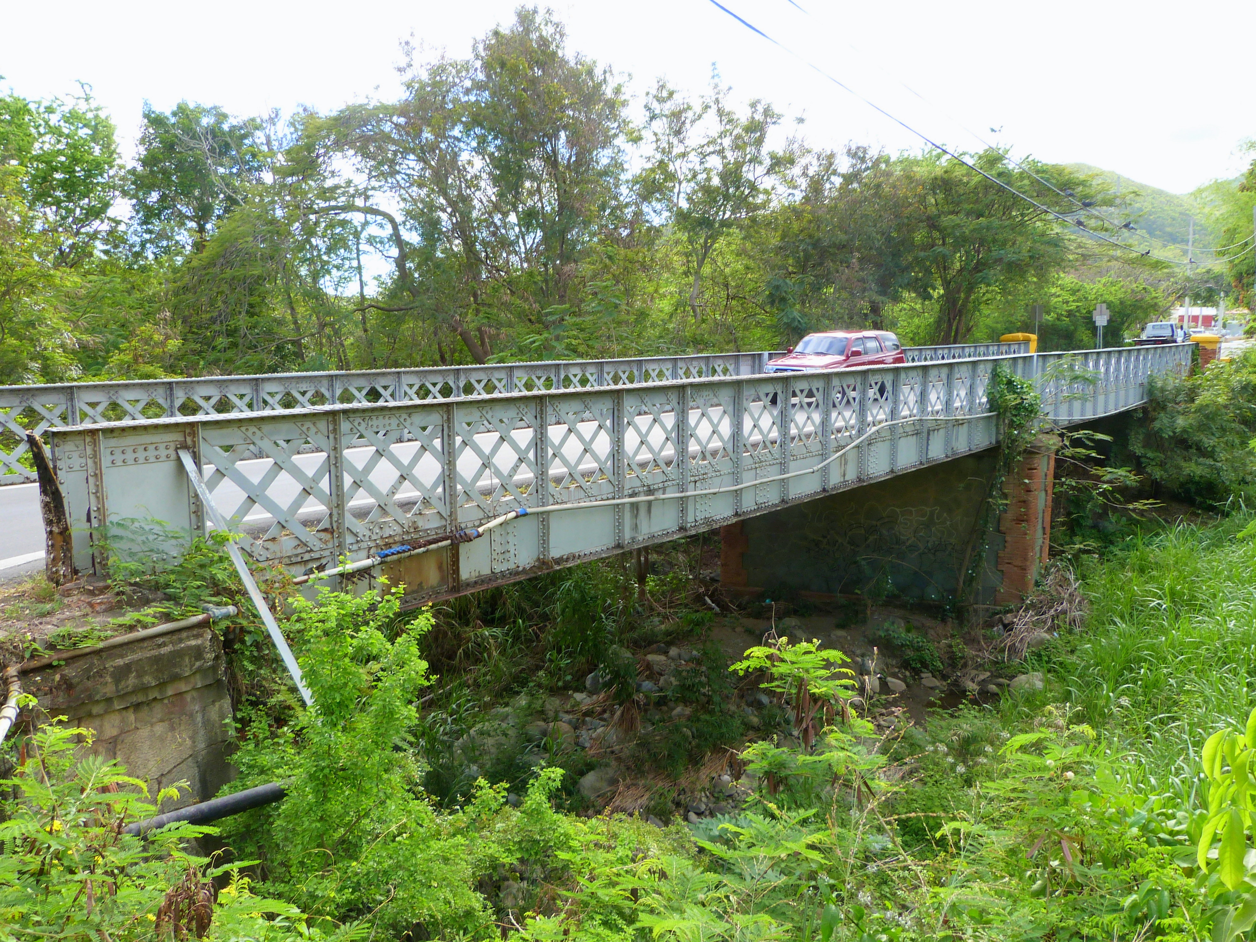 The historic Cayey Bridge (built 1891), spanning the Río Guamaní on Puerto Rico Highway 15 at km 1 in Guayama, Puerto Rico, is listed on the U.S. National Register of Historic Places.